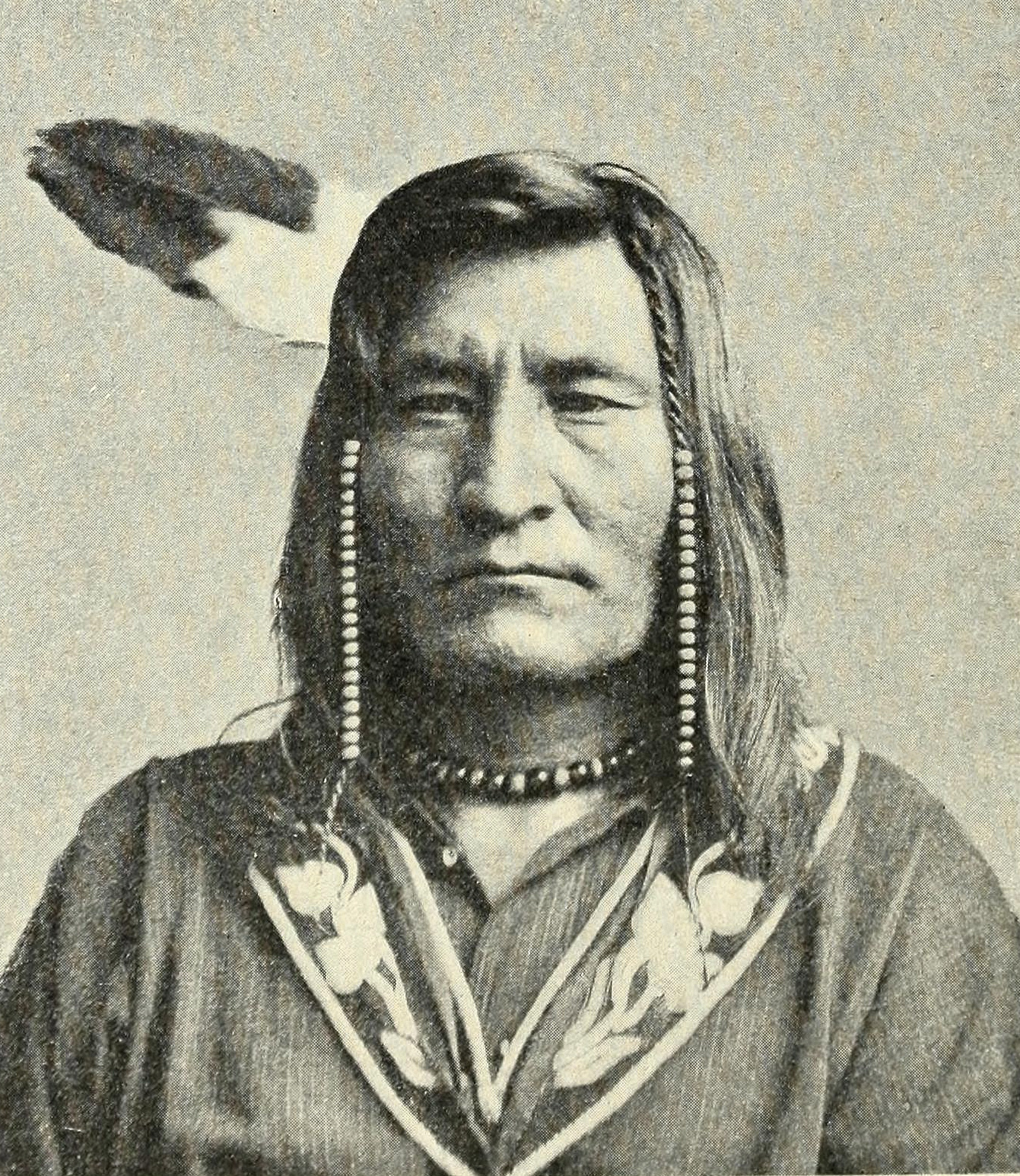 A portrait of Little Shell, the Ojibwe tribesman who was the model for the contemporary Coat of arms of Massachusetts